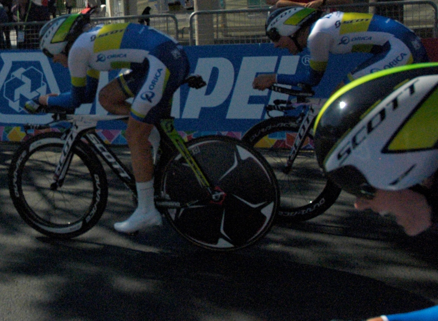 2013 UCI Road World Championships – Women's team time trial